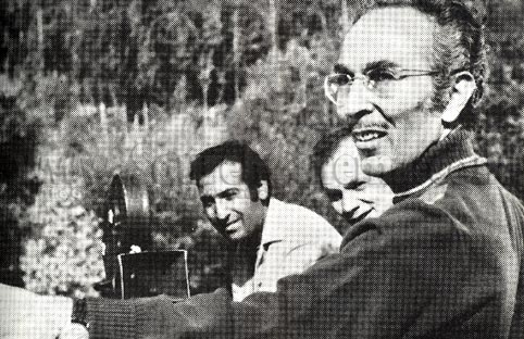 Samuel Khachikian - 1970